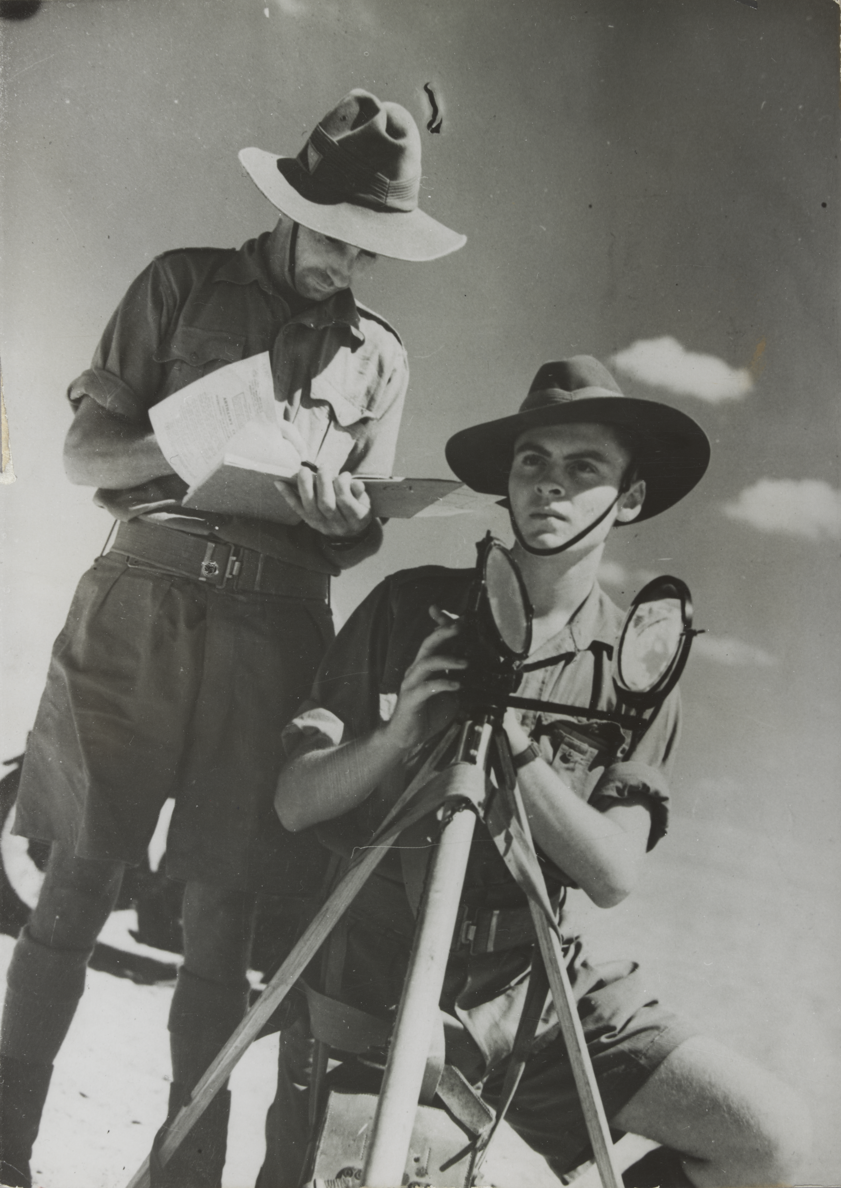 Two A.I.F. signallers use a heliograph during exercises in the Western Desert of Egypt (Libya) in Nov. 1940, during World War II. This photo was made into a A.I.F. recruiting poster in Sept. 1941. This is an official Department of Information (Australia) photo of two signallers of the 2nd Australian Imperial Force. They are using a Mance Mark V heliograph in duplex (dual-mirror) mode to signal by Morse Code using reflected sunlight modulated by tilting one mirror. This photo appeared in the Australian Sydney Morning Herald on Nov. 13, 1940 , the West Australian on Nov. 16, 1940 ( and the Examiner (Tasmania) on Nov. 20, 1940 ( The poster was announced on Sept. 11, 1941, in the Courier-Mail (Brisbane, Queensland, Australia) ( This was the cover photo for the British publication "The War Illustrated", VOl. 4, No.75, Feb. 7, 1941, with the title: "Signals in The Desert Battle: Australians With A Heliograph".